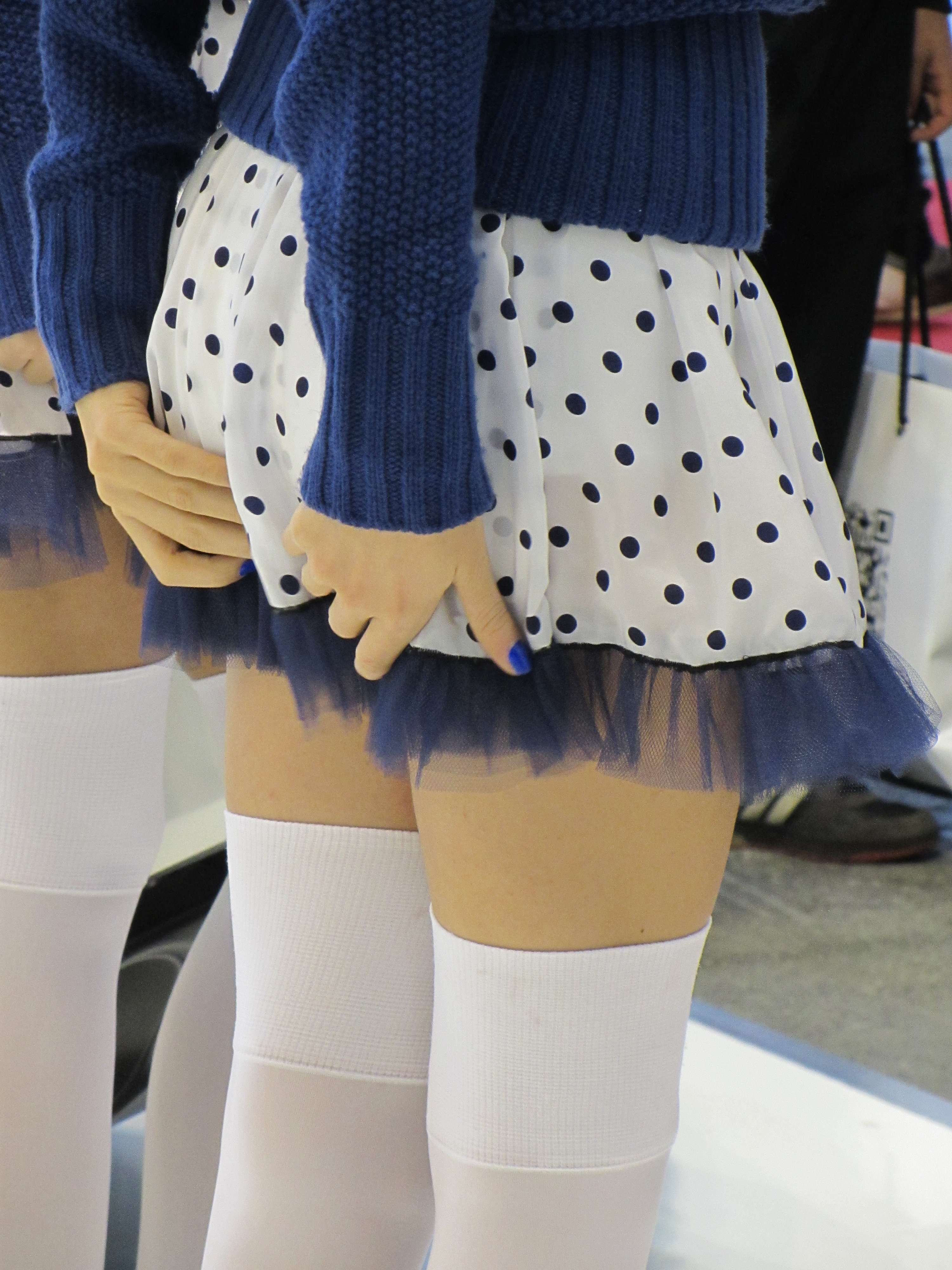 An example of zettai ryōiki on a model at the Bologna Motorshow 2012